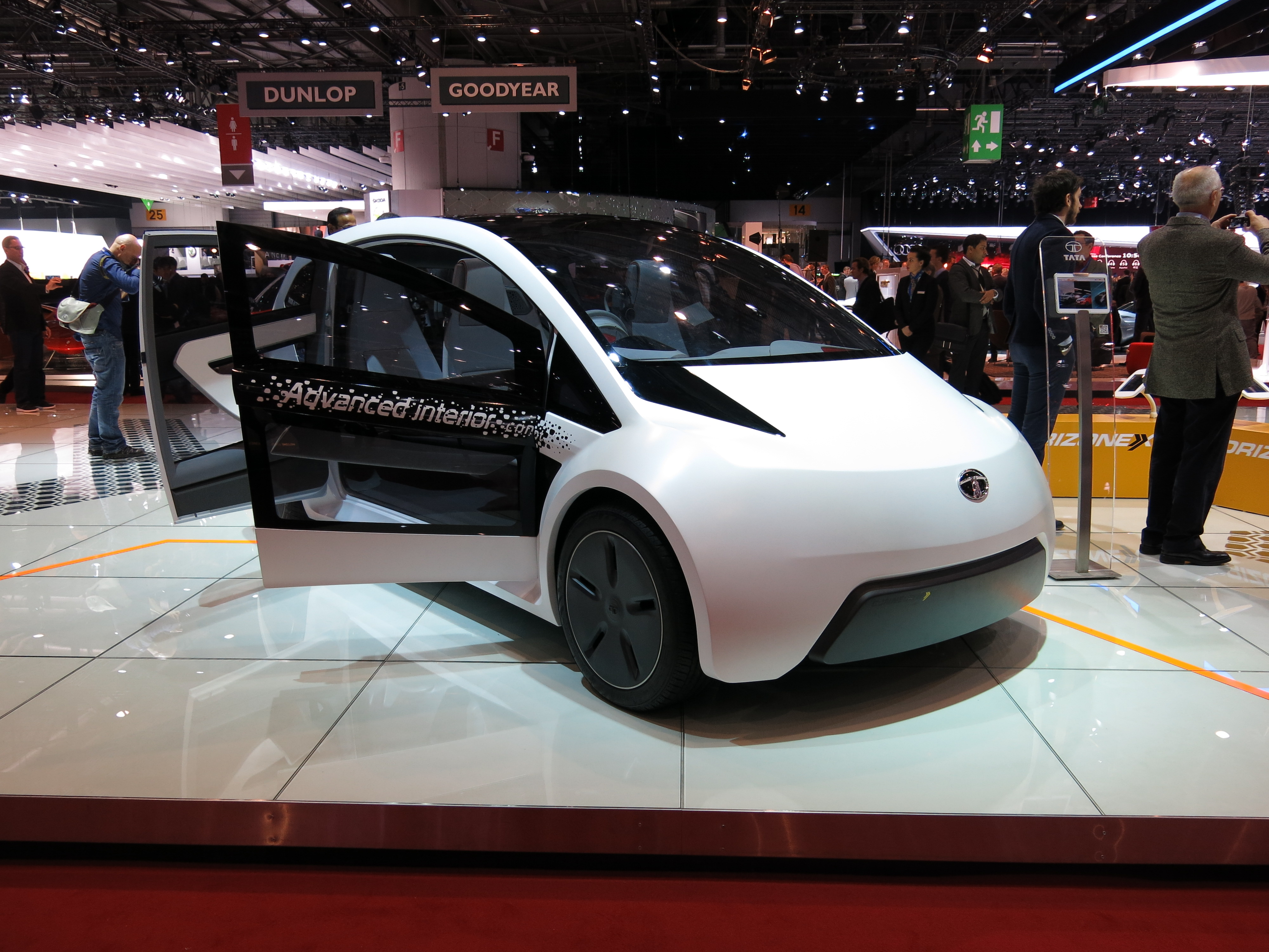 Geneva Motor Show 2015 (photo taken on the first press day)